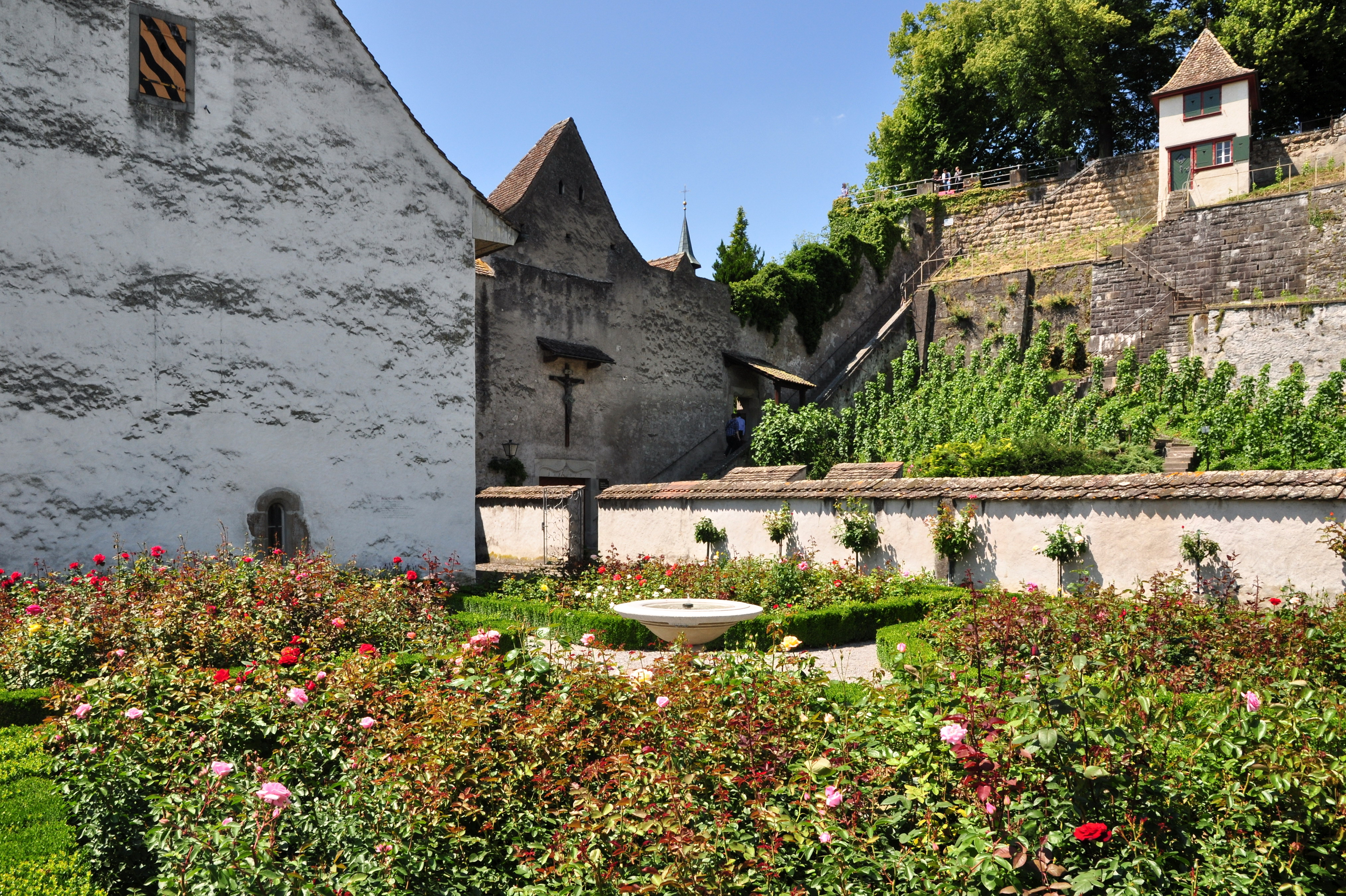 Rosengarten in Rapperswil (Switzerland) at the so-called Einsiedlerhaus building, Schlossberg vineyard and Lindenhof hill in the background, Endinger tower respectively Kapuzinerkloster to the left.